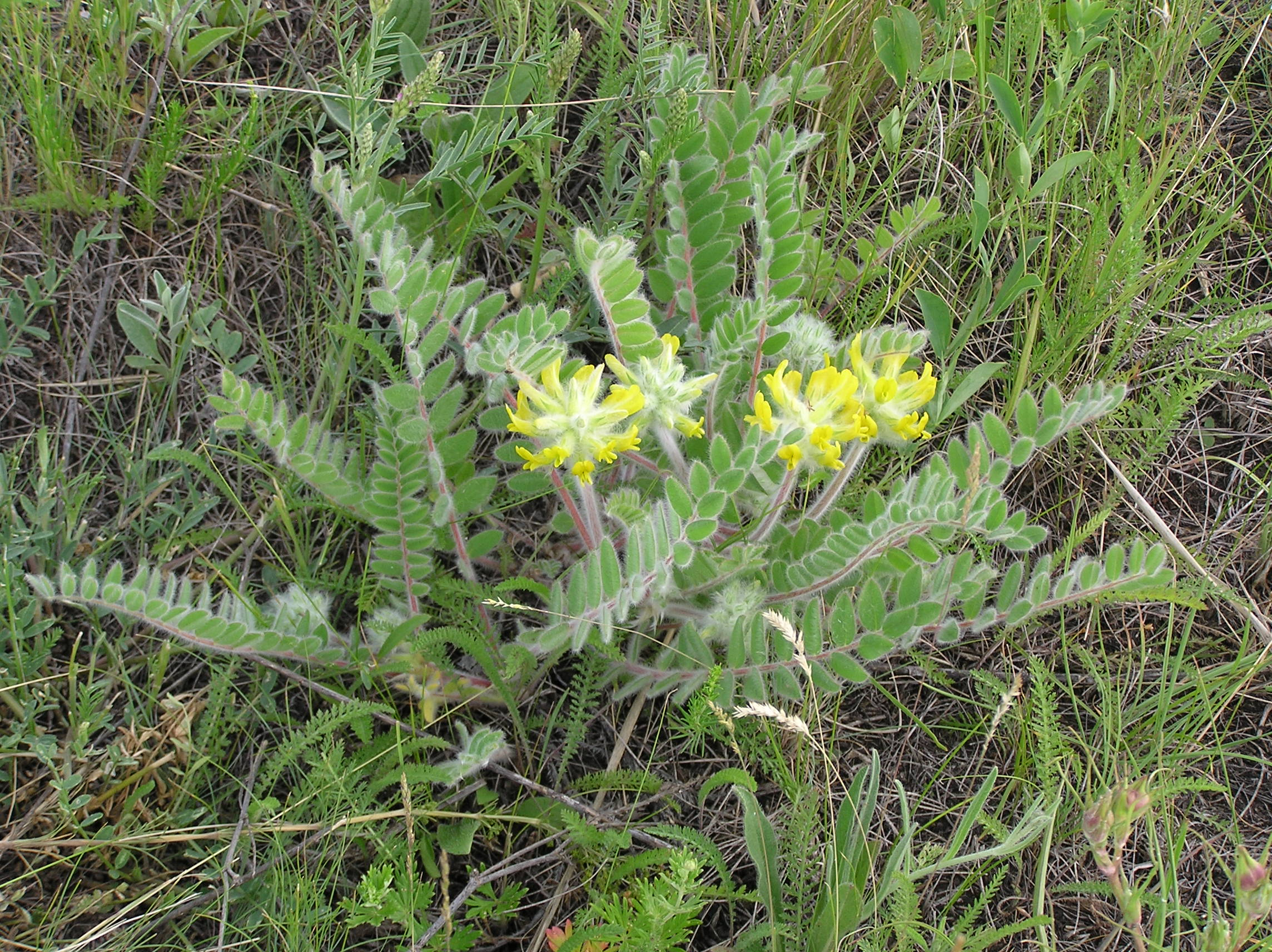 Astragalus dasyanthus Pall. Habitat: steppe on a gentle north-western slope. Vicinity of Saratov city, Russia.